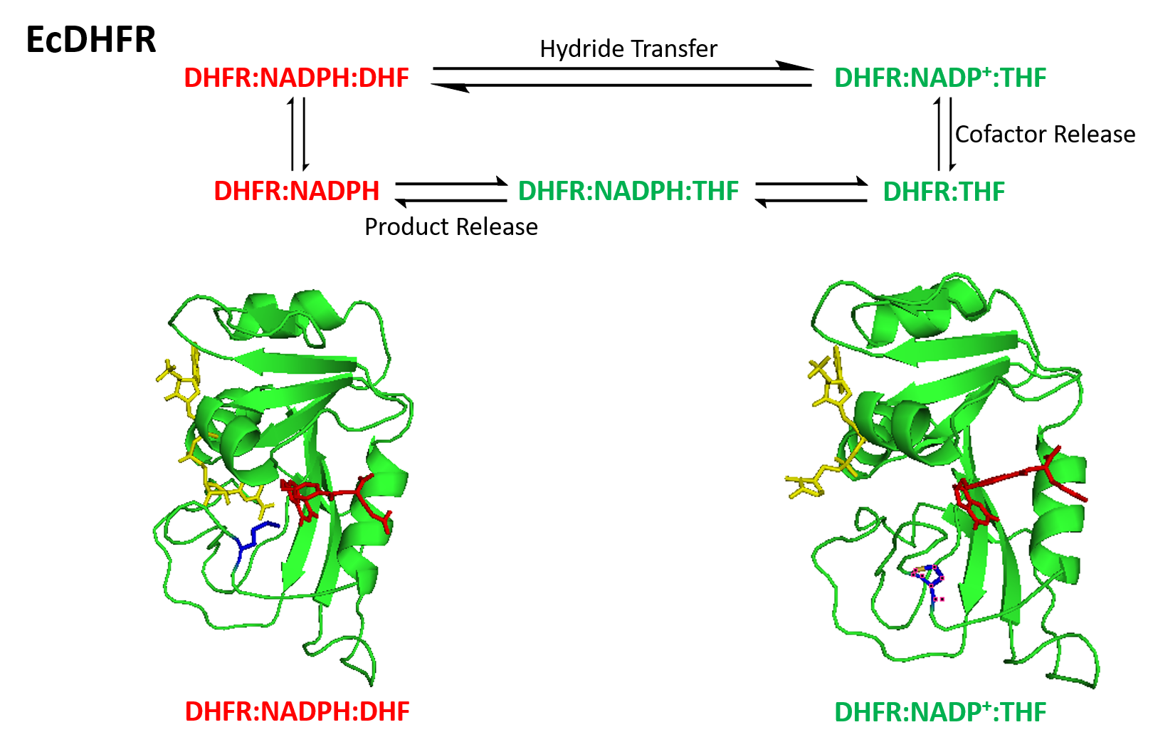 The closed structure was dipicted with red and occluded structure was dipicted with green in the catalytic scheme. In the strucure, DHF and THF was shown in red color, and NADPH was shown in yellow color, the Met20 residue was shown in blue color